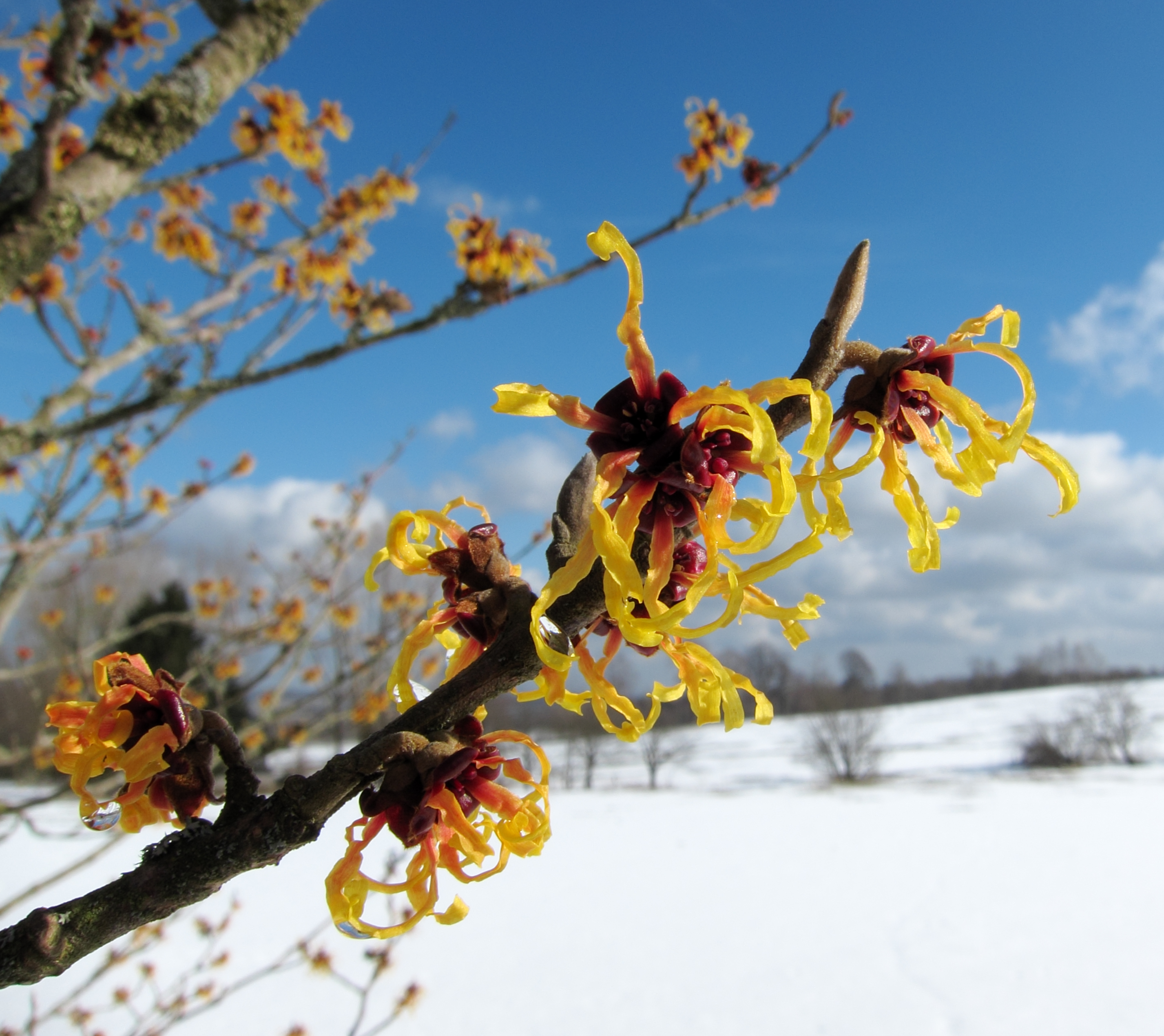 Witch-hazel / Hamamelis – Winter-flowering in the Vogelsberg Mountains